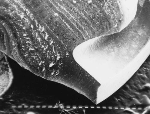 image of fatigue of material (crankshaft)